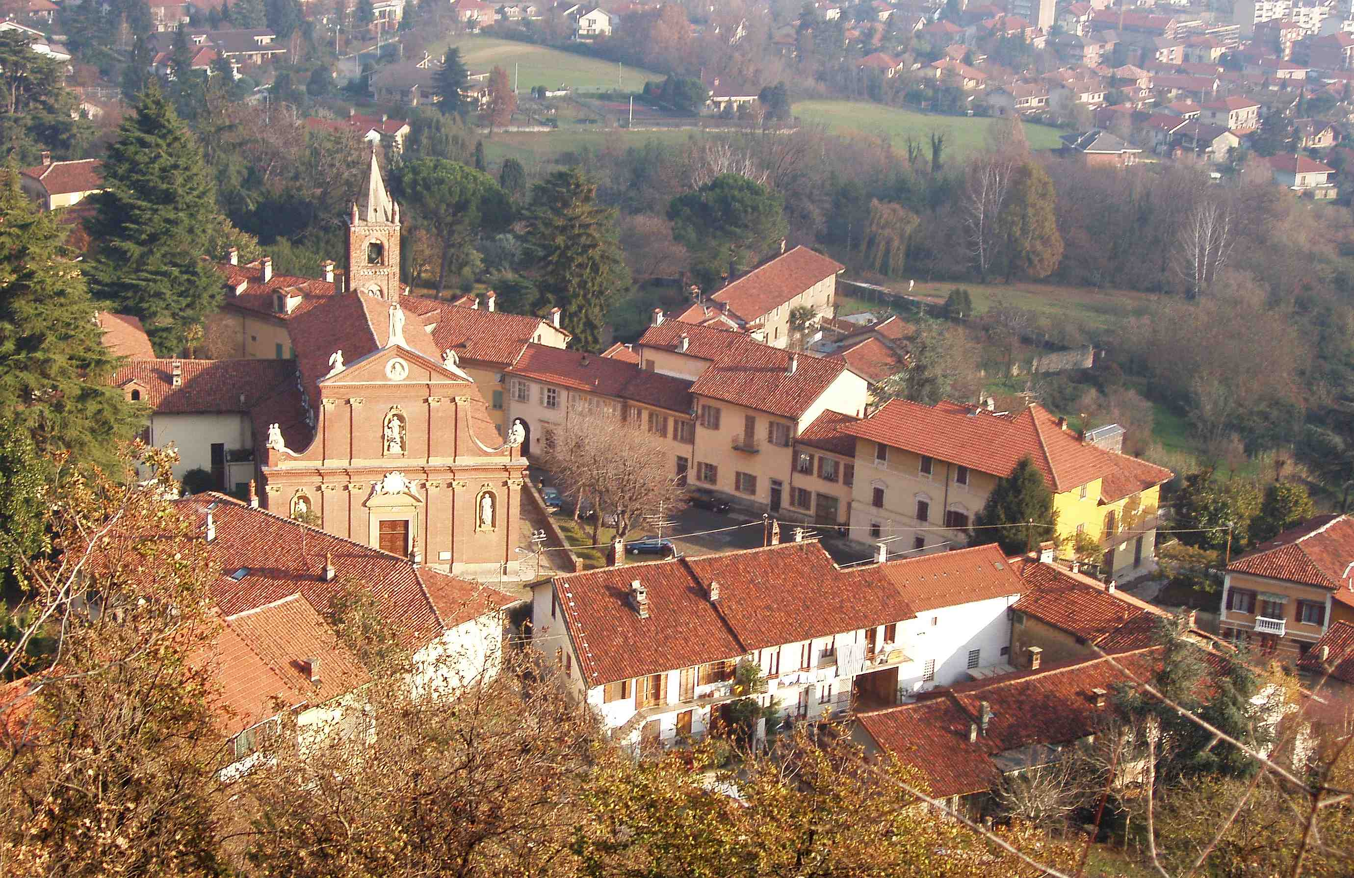 Piossaco: San Vito (TO, Italy)